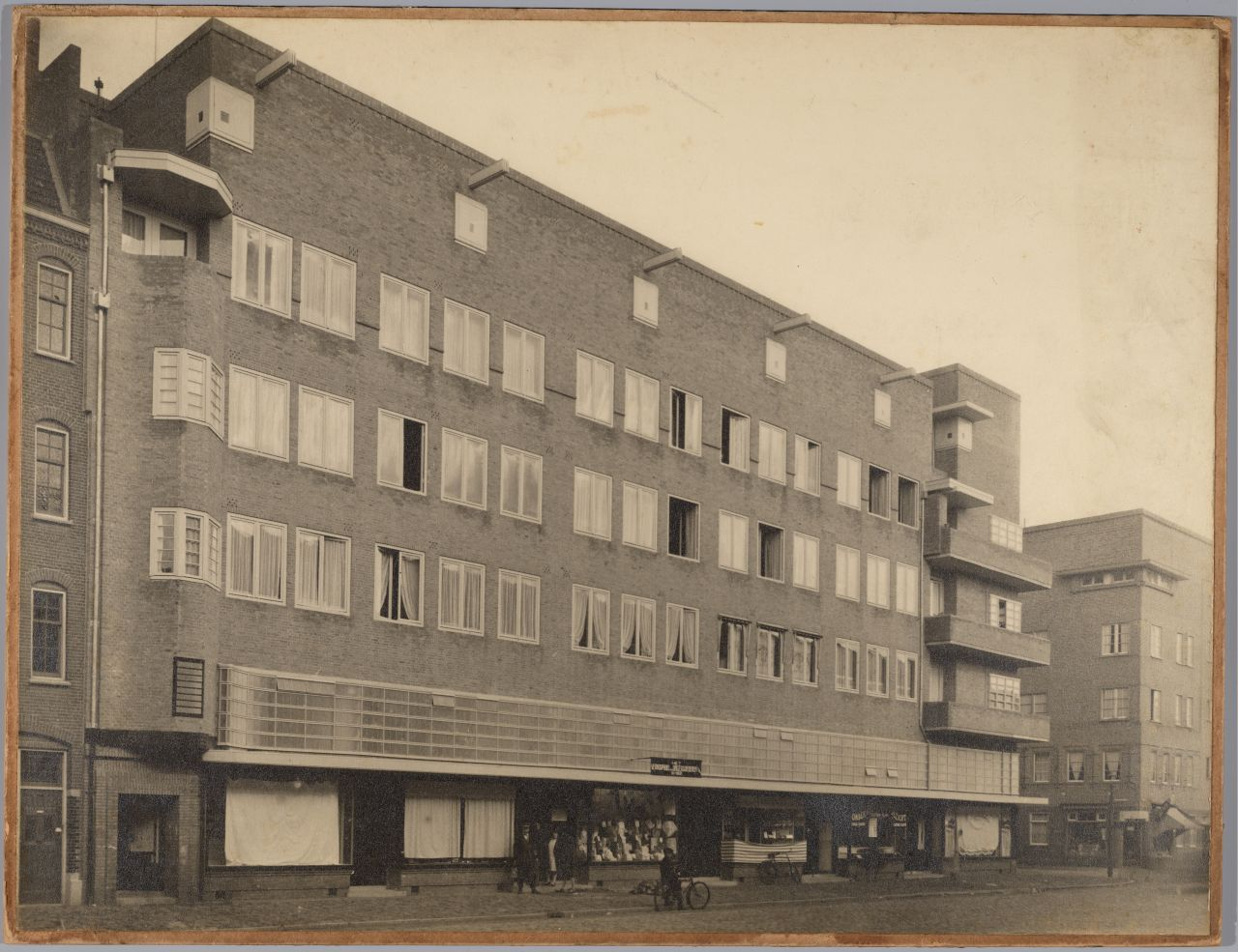 Woonhuizen, Javastraat, Amsterdam, 1926. Architect: D. GreinerFotograaf: onbekend. Collectie NAi / TENT_n234 URL van deze afbeelding: Meer foto's uit deze collectie kunt u bekijken in de Collectiedatabase van het NAi. Niet van alle gebouwen en interieurs zijn alle gegevens bekend. Heeft u meer informatie of weet u het adres van een gebouw? Laat dan een reactie achter (als u ingelogd bent bij Flickr) of stuur een mailtje naar: Al deze foto's zijn gemaakt in de eerste helft van de twintigste eeuw. Wij zijn benieuwd hoe deze gebouwen er vandaag de dag uitzien. Heeft u recente foto's van deze gebouwen of locaties, voeg ze dan toe als commentaar. U kunt een eigen Flickr-foto toevoegen door de URL ervan tussen vierkante haken in het commentaarveld te plakken. Housing, Javastraat, Amsterdam, 1926. Architect: D. Greiner. Photographer: unknown. NAI Collection / TENT_n234 Persistent URL: For more photographs from this collection, please visit the NAI Collection Database You can help us gain more knowledge on the content of our collection by adding a comment with information. If you do not wish to log in, you can write an e-mail to: All these pictures are taken in the first half of the twentieth century. We are curious to learn how these buildings look like today. If you have recently taken photographs of these buildings or locations, please add them to your comment. If you'd like to include a Flickr photo, simply copy and paste its URL between square brackets in the commentary-field.